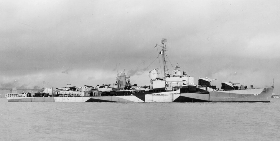 The U.S. Navy destroyer USS Putnam (DD-757) off San Francisco, California (USA), on 29 December 1944. She is painted in Camouflage Measure 32, Design 11A.